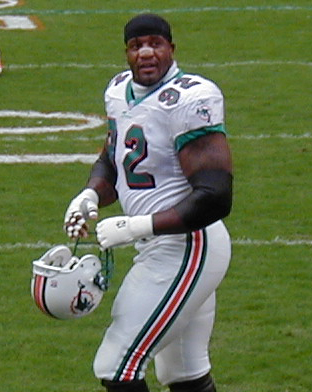 If used somewhere other than Wikipedia, Nelson, by name.